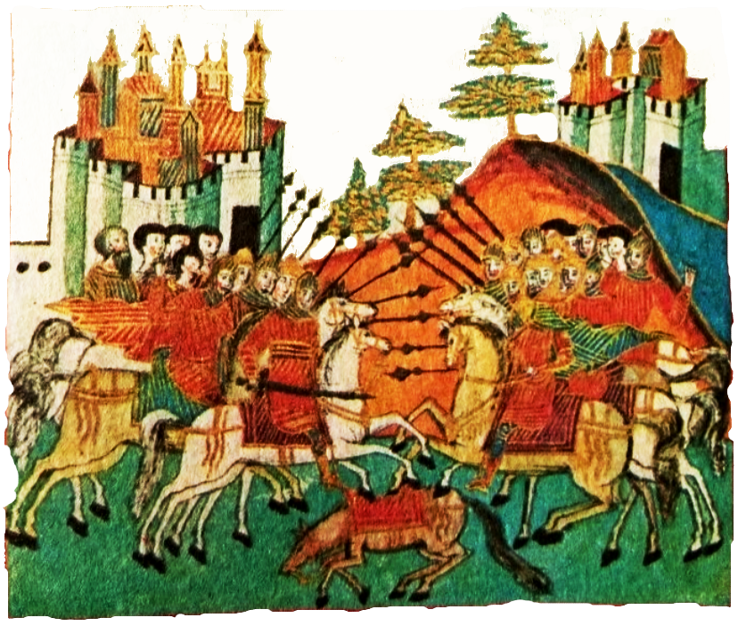 David Battling Saul, from a Moldavian manuscript of the Four Gospels kept at Dragomirna, Romania; done by a pupil of Anastasie Crimca, it reflects to some degree warfare in Moldavia at the turn of the 16th century. See Dan Horia Mazilu, "Voievodul dincolo de sala tronului", in Magazin Istoric, May 2002, p. 60